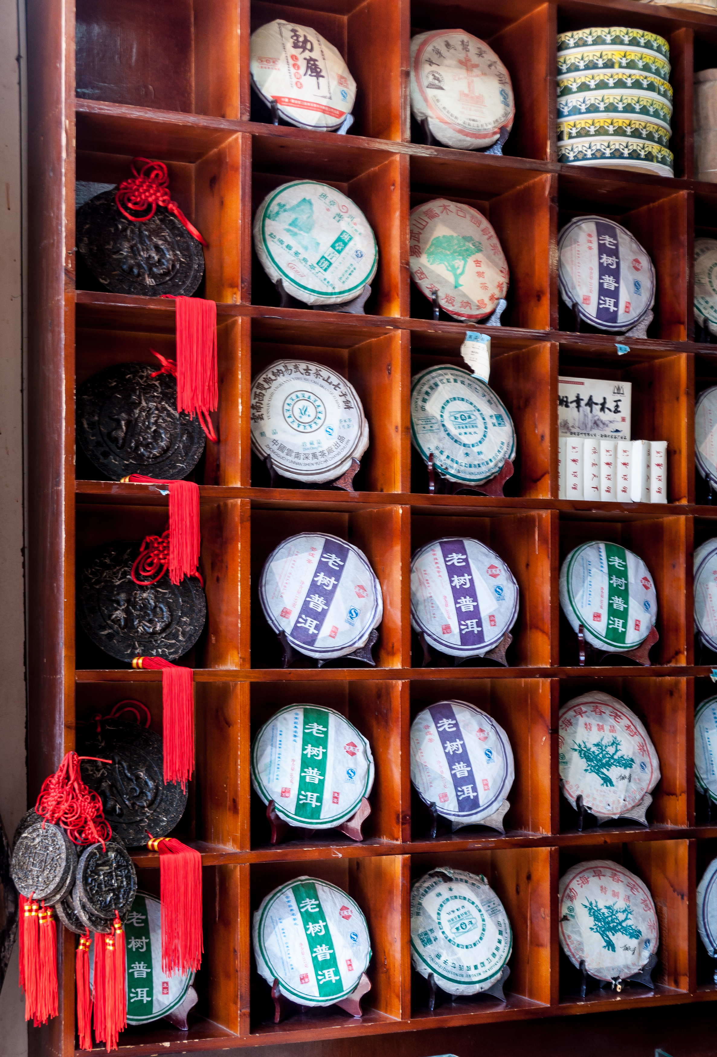 Lijiang, Yunnan, China: Heritage tea shop in the old town of Lijiang, presenting different brands of tea